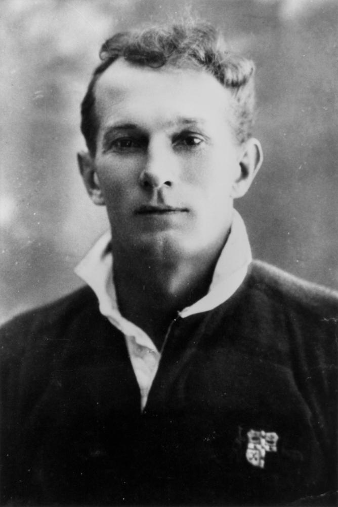 Queensland Rugby league player Herb Steinorht Young Herb Stinohrt in 1925. He played 9 times for Australia, captaining his country in 1932. A 1929 - 30 Kangaroo, he played more games for Queensland than any other player in history, 42 games. (Description supplied with photograph.)